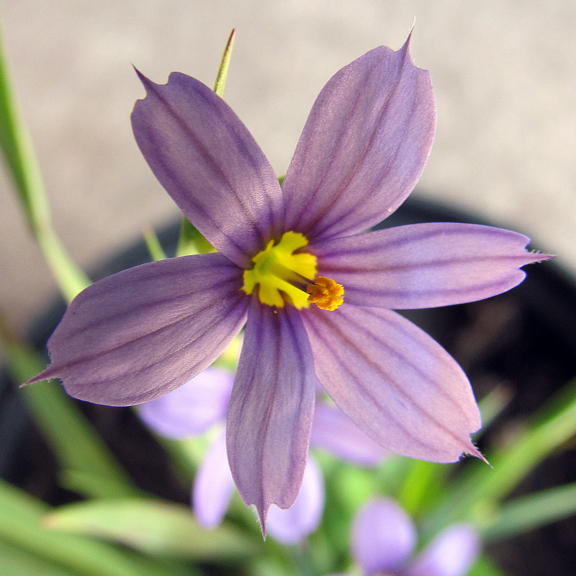 Sisyrinchium angustifolium flower